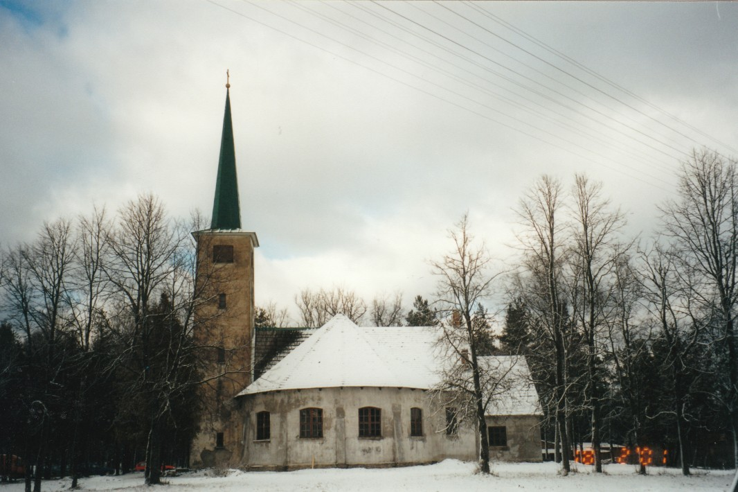 Allaži Evangelical Lutheran Church in StīveriLatviešu: Allažu evaņģēliski luteriskā baznīca Stīveros